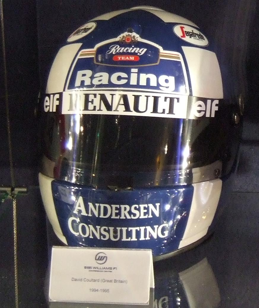 David Coulthard's helmet as a Williams driver.